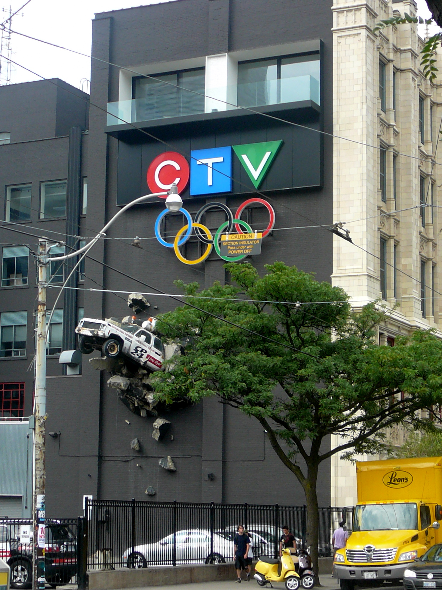 The east facade of 299 Queen Street West following its re-branding with CTVglobemedia properties. The Olympic rings under the CTV logo signify that it is the official broadcaster of the Olympic Games in Canada for 2010 and 2012. The crashed truck sculpture is branded with the logos of CP24, a news channel also acquired by the company in its purchase of CHUM Limited, former owner of the building.